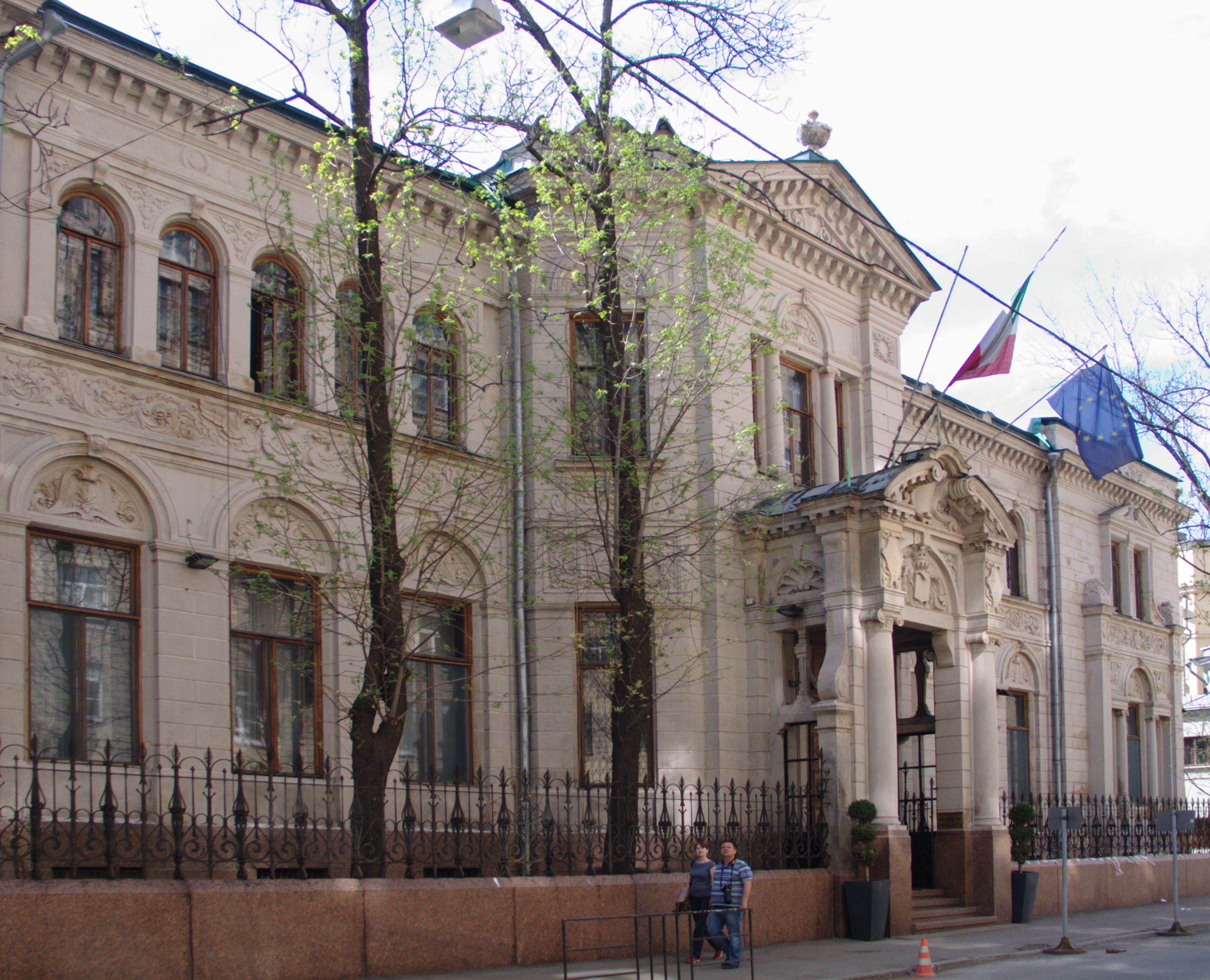 Building of the Embassy of Italy in Moscow (Denezhnyi side-street 5)